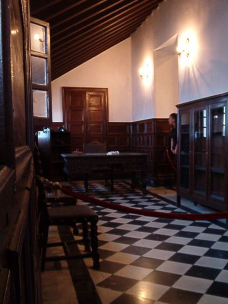 An office inside the La Cabaña fortress in Havana. According to tour guides, Che Guevara commanded the fortress from this office during the Cuban Missile Crisis. Taken July 2004 by glasperlenspiel.